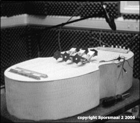 A unique hand crafted musical instrument, a "drone" instrument. The String Machene by Sporsmaal2.